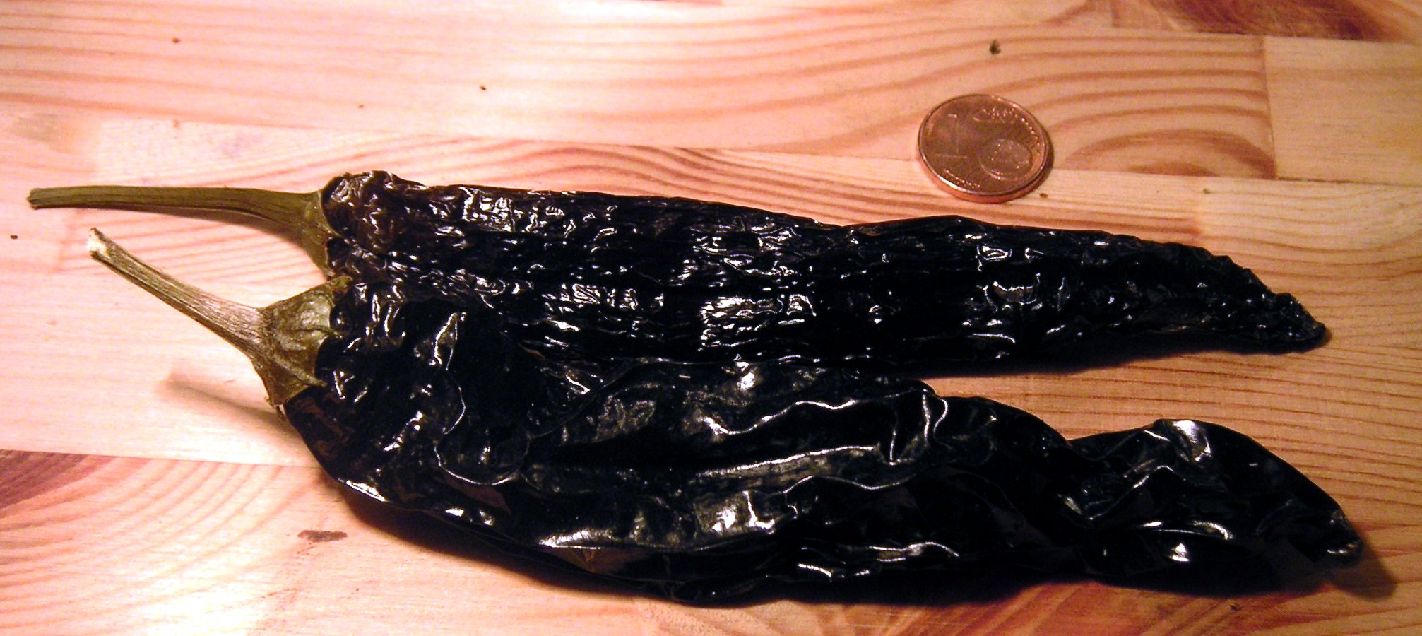 Dried fruit of Capsicum annuum cv. 'Pasilla'